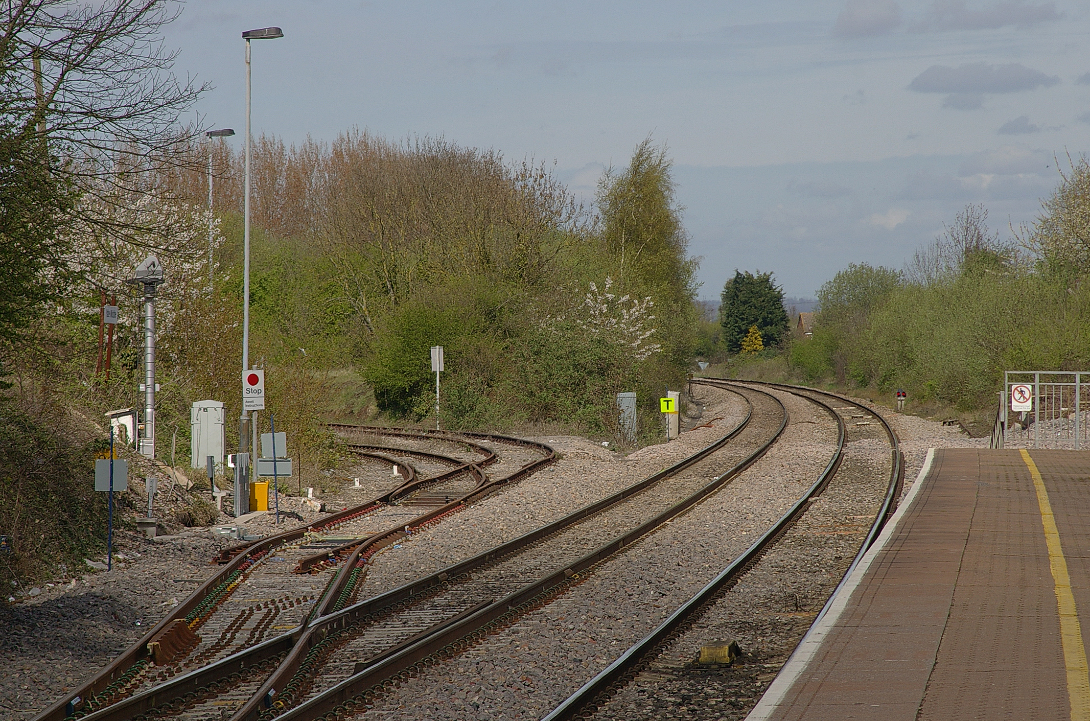 Looking north from Yate railway station - the Thornbury Branchline is on the left.